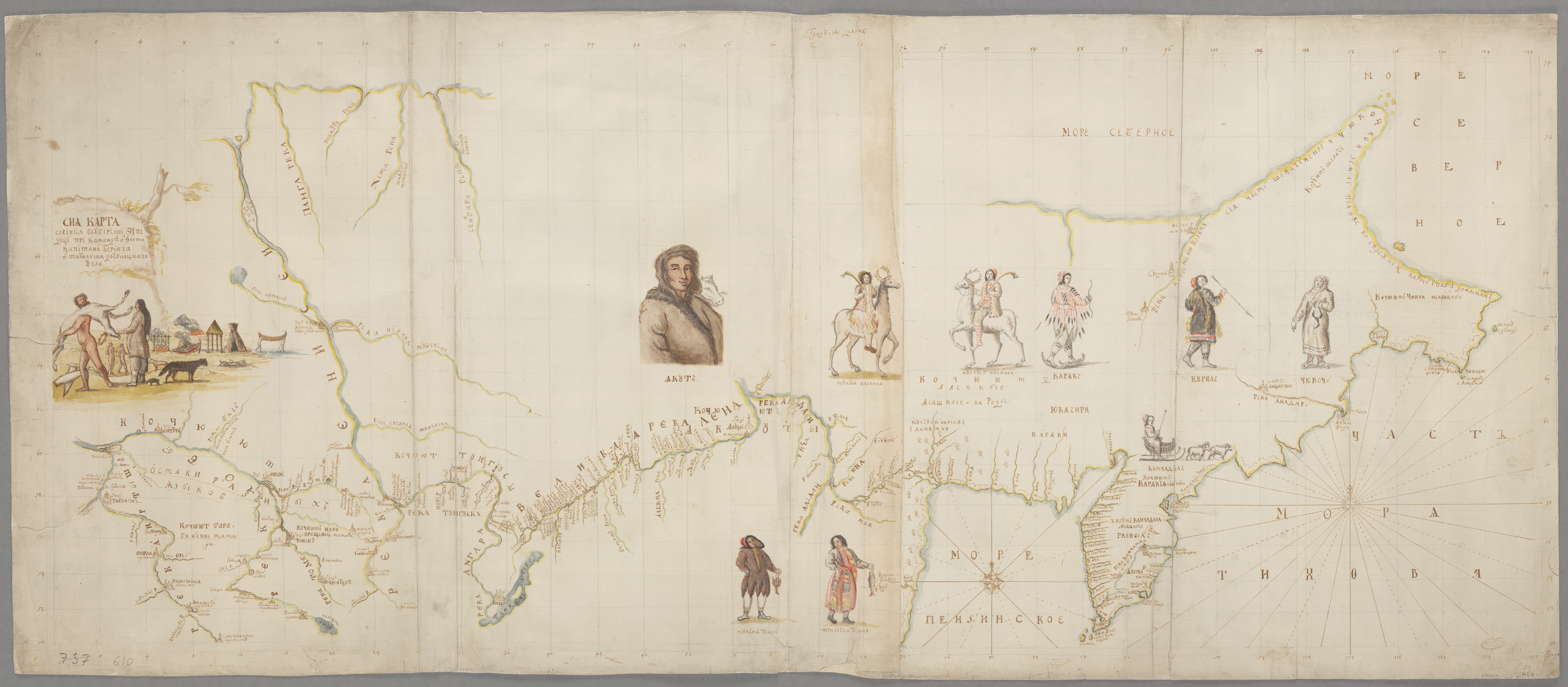 Vitus Jonassen Bering (1681–1741) was born in Denmark but spent most of his adult life in the Russian navy. In 1725, Tsar Peter I (Peter the Great) instructed Bering to undertake an expedition to find the point at which Siberia connected to America. In what became known as the First Kamchatka Expedition (1725–30), Bering traveled overland from St. Petersburg via Tobolsk to the Kamchatka Peninsula, where he had a ship, the Saint Gabriel, constructed. In 1728 he sailed north along the coast of the Kamchatka Peninsula. In August of that year he passed between the two continents through the strait that would later bear his name, but he never spotted the Alaskan coast and was unable to determine whether Asia and North America were connected or separated by water. Upon his return to St. Petersburg, Bering presented to Empress Anna (reigned 1730–40) the maps prepared during the expedition. Unlike other maps of the expedition, this hand-drawn map contains ethnographic drawings, some of the first images of the inhabitants of Siberia. Peoples represented on the map include the Yakuts, Koriaks, Chukchi, Evenks (formerly known as the Tungus or Tunguz), Kamchadal (or Itelmen), and the Ainu people of the Kuril Islands. The Second Kamchatka Expedition of 1733–43, also led by Bering, finally resulted in the European discovery of Alaska and confirmation that Siberia and Alaska were indeed separated by water. Discovery and exploration; Indigenous peoples